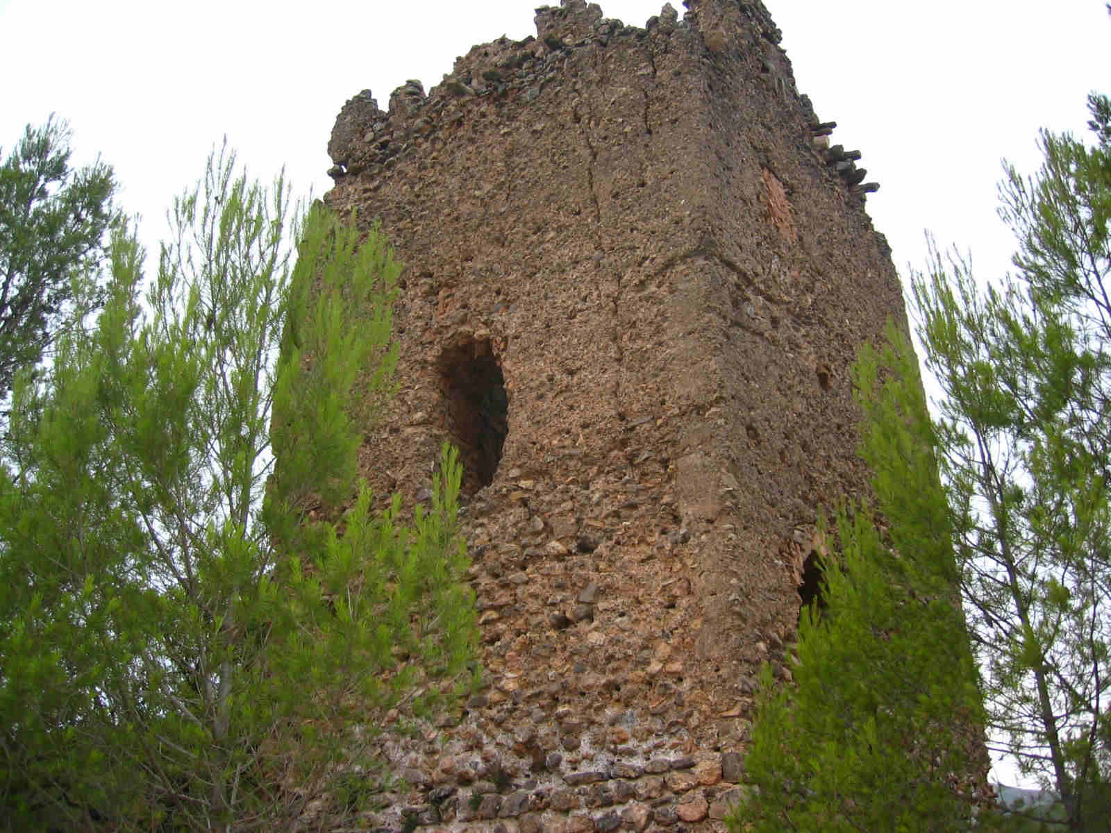 Ayodar, castle of Abu Zayd.